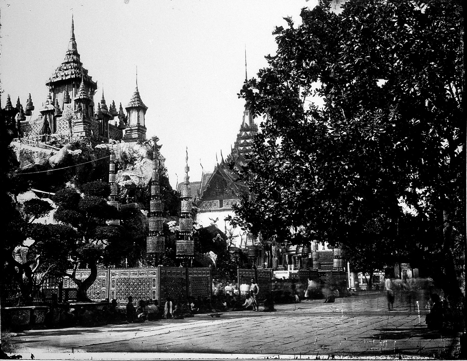 Mount Kailash erected on the grounds of the Grand Palace in Bangkok probably for the Tonsure Ceremony of Prince (Chao Fa) Maha Vajiravudh. (Source: H.G. Quaritch Wales: Siamese State Ceremonies. London 1931) (see also Mount Meru) Iconographic Collections Keywords: John Thomson; Siam (Thailand); John Thomson